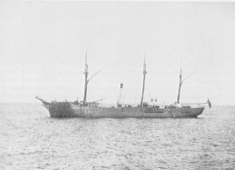 CGS Alert (ex-HMS Alert of 1856) in 1893 as a lighthouse supply vessel